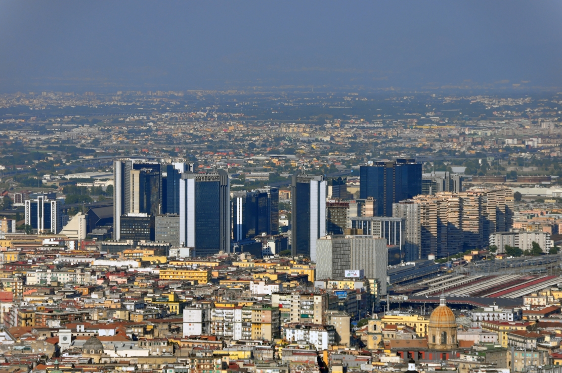 Neapel 2012